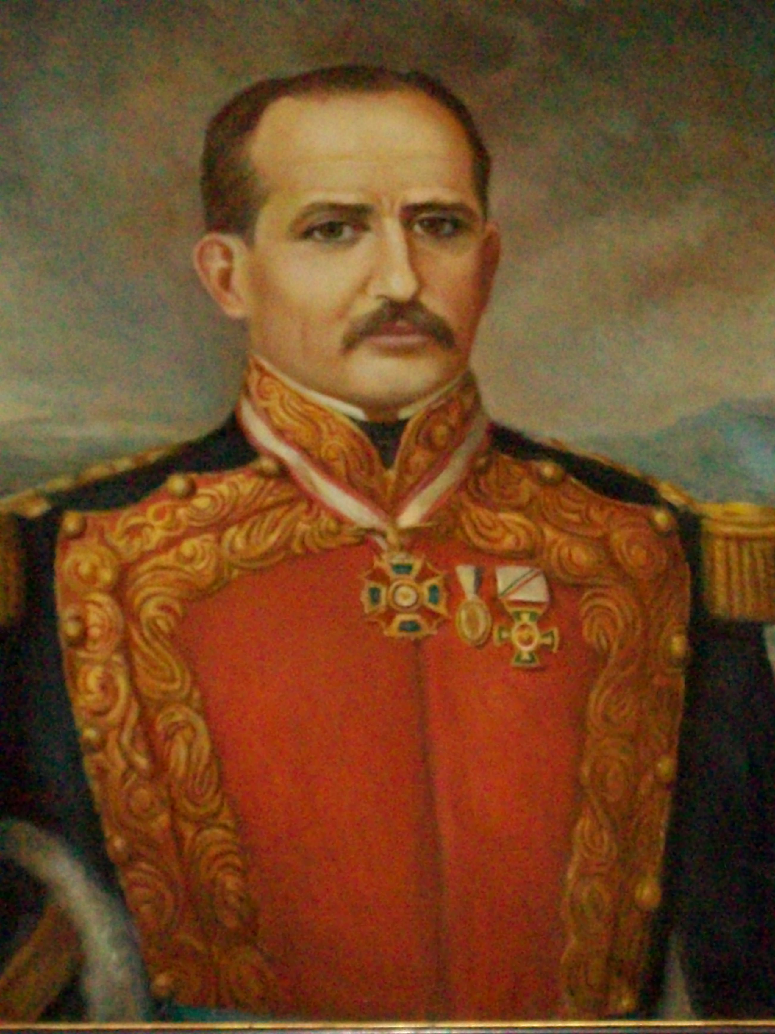 Prisciliano Sánchez´ oil painting